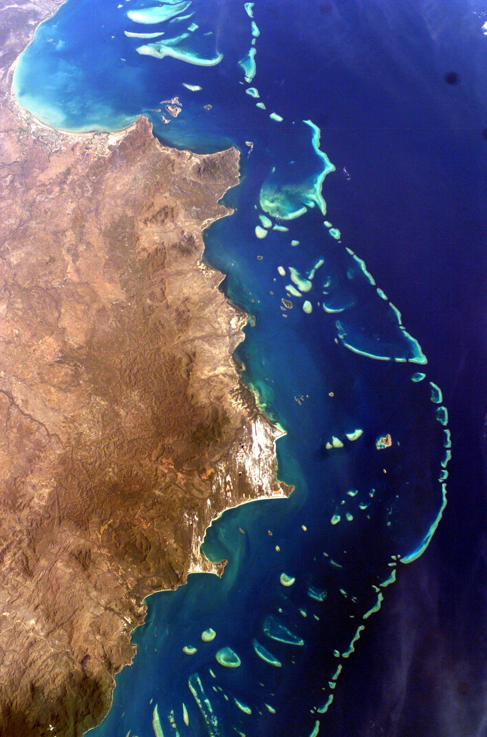 Astronaut made photograph of the Great Barrier Reef Far Northern Section of the Great Barrier Reef. Northern Cooktown, Queensland: Cape Melville (right). The image is oriented with north aproximately to the right.